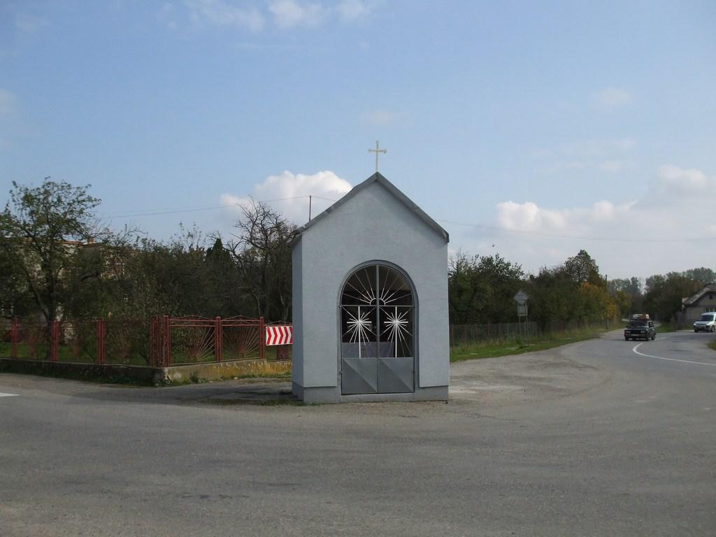 Small chapel located in the village Zemplínska Teplica